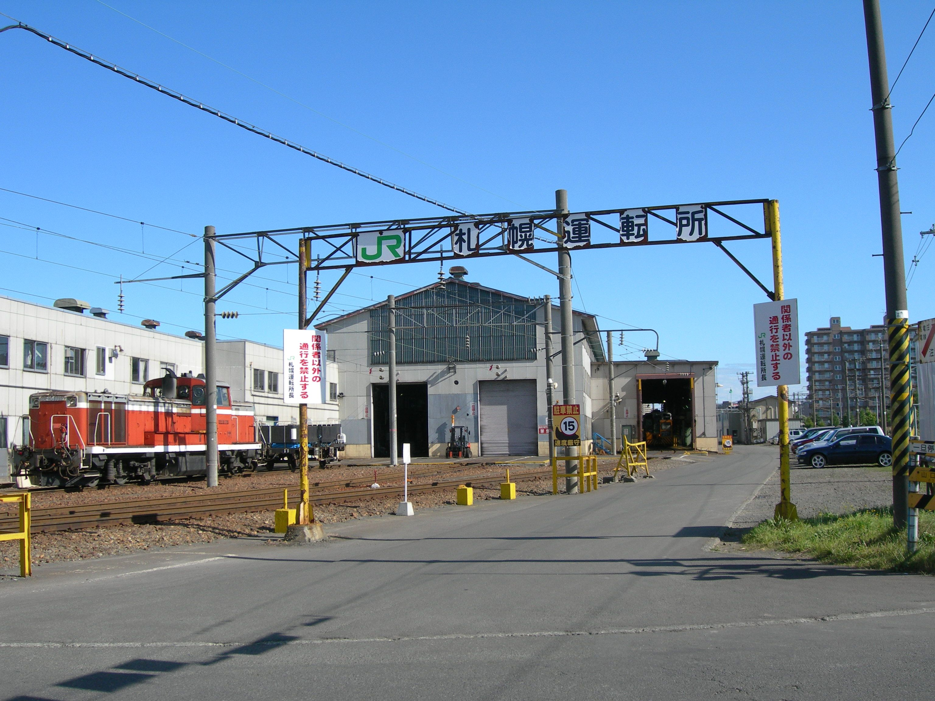 JR Hokkaido Sapporo Depot